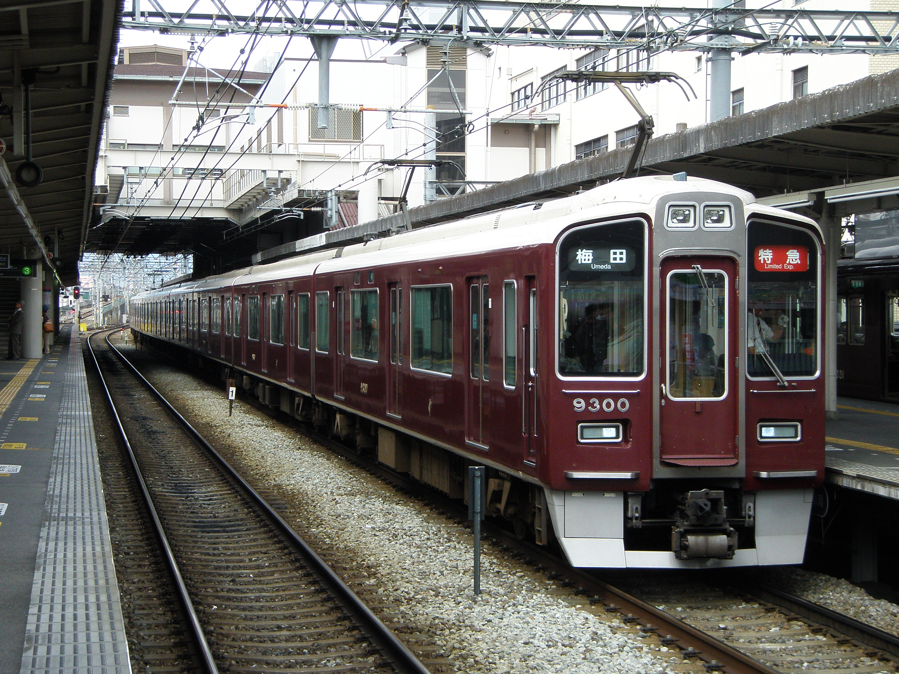 Hankyu Railway 9300 series EMU set 9300 at Katsura Station on a limited express service